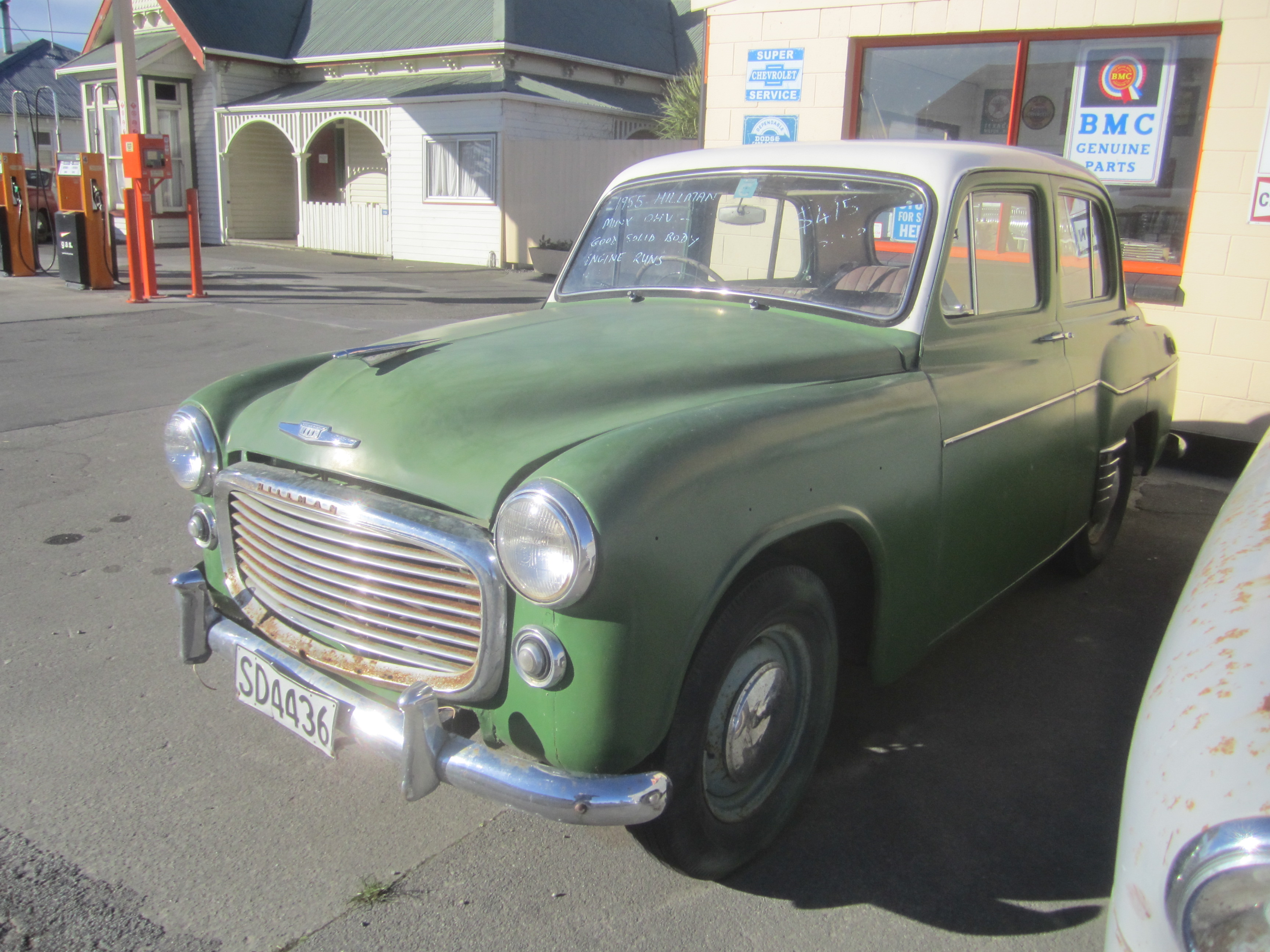 The Hillman Minx was sold under the Rootes group, from 1932-70, there was also badge-engineered versions which were sold under the Humber, Singer, and Sunbeam marques The 1945 Phase I was built after the war and was the same shape as the prewar Minx with 1185cc side valve engine. 1947 Phase II was a slightly improved Phase I The 1948 Phase III got a new shape, available in Saloon, Estate and Convertible but still with the 1185cc engine. The engine was bored out for the 1949 Phase IV to 1285cc The 1952 Phase VI got a facelift and a Coupe was available. The 1953 Phase VII got an oval surround for the grille The 1954 Phase VIII got the new 1390cc OHV engine and now vertical bars in the grille. A new shape in 1956 started again with Series I